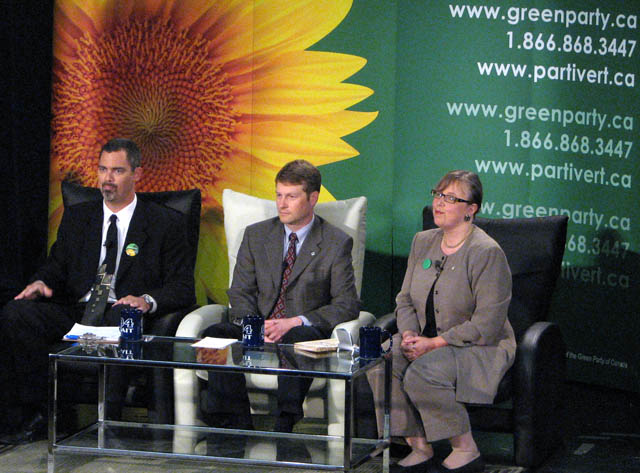 The candidates at the Green Party of Canada leadership debate on June 21, 2006, in Calgary, Alberta, Canada. Part of the GPC leadership race. L-R: Jim Fannon, David Chernushenko, Elizabeth May.